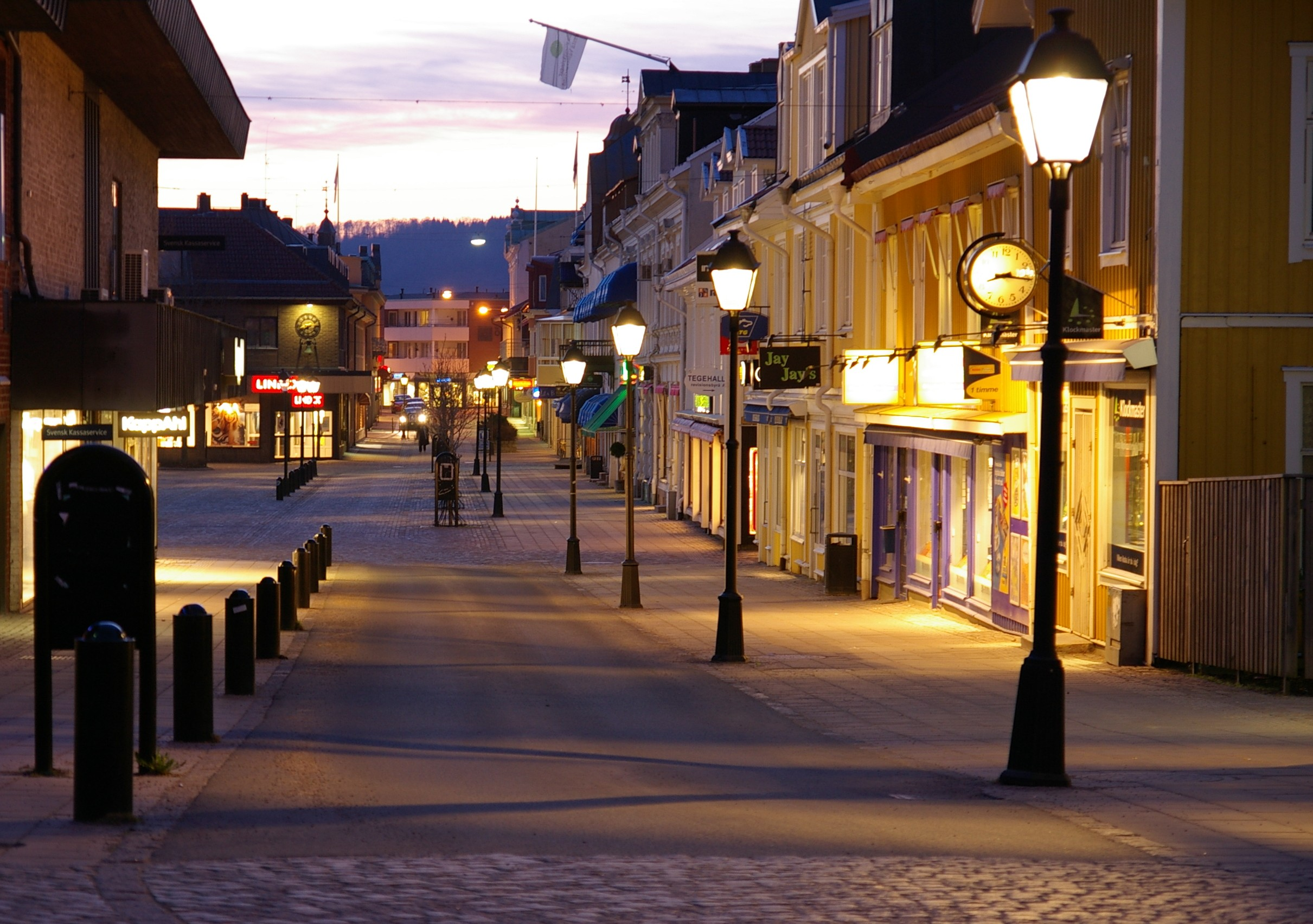 Storgatan (street) in Falköping, Sweden.